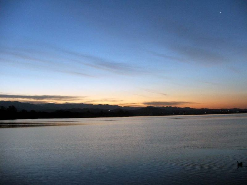 Shot taken early morning at Sukhna lake ,Chandigarh (the place where I live) This is a man made lake in the foothills of Shivalik Range .